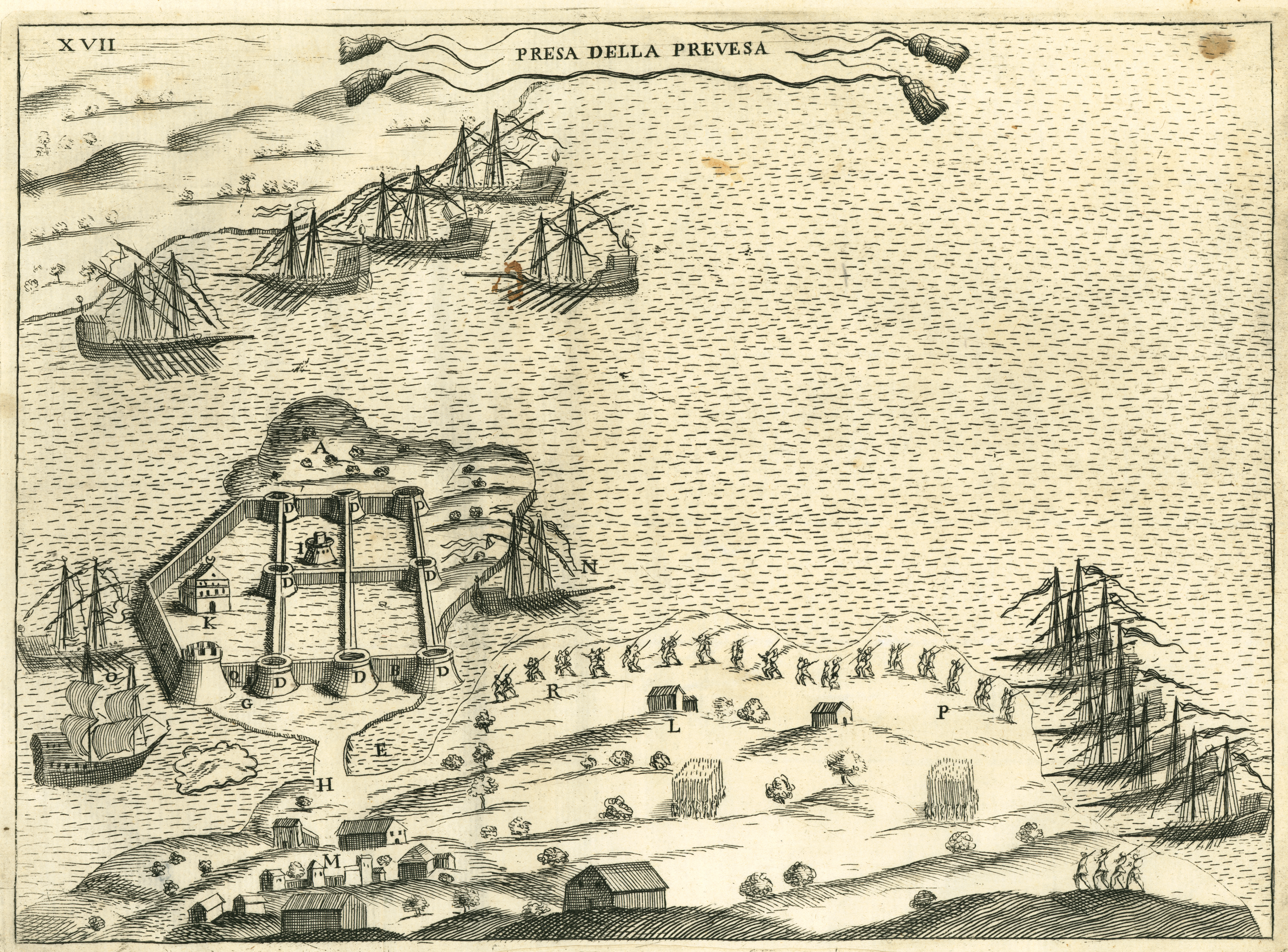 The castle of Bouka in Preveza, captured by the knights of St. Stephen, in 1605. Copper engraving by Hubert Vincent, 1701. Nikos D. Karabelas map collection, Actia Nicopolis Foundation, Preveza, Greece.